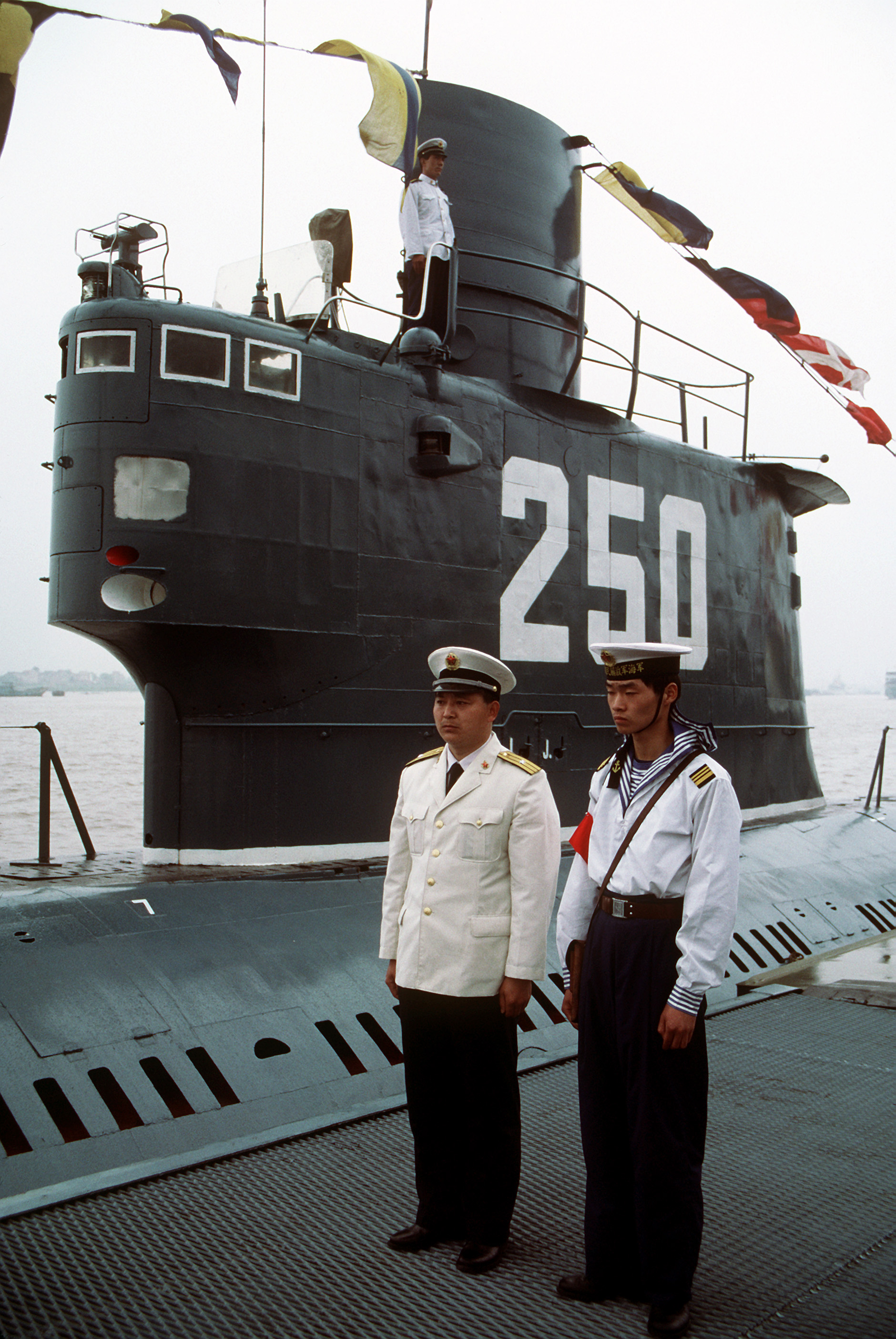 An officer and sailor stand on the pier beside a Chinese navy Romeo class submarine.